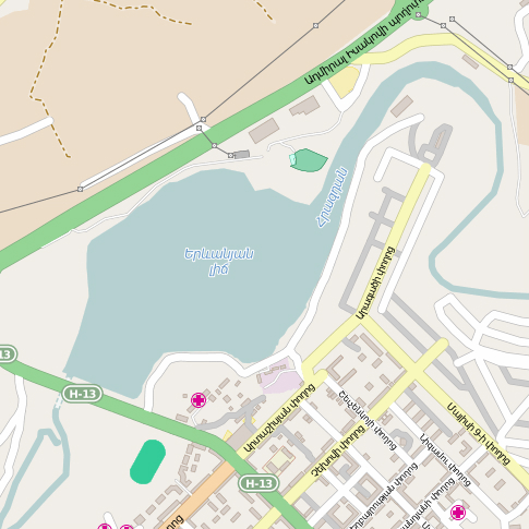 Map of Lake Yerevan